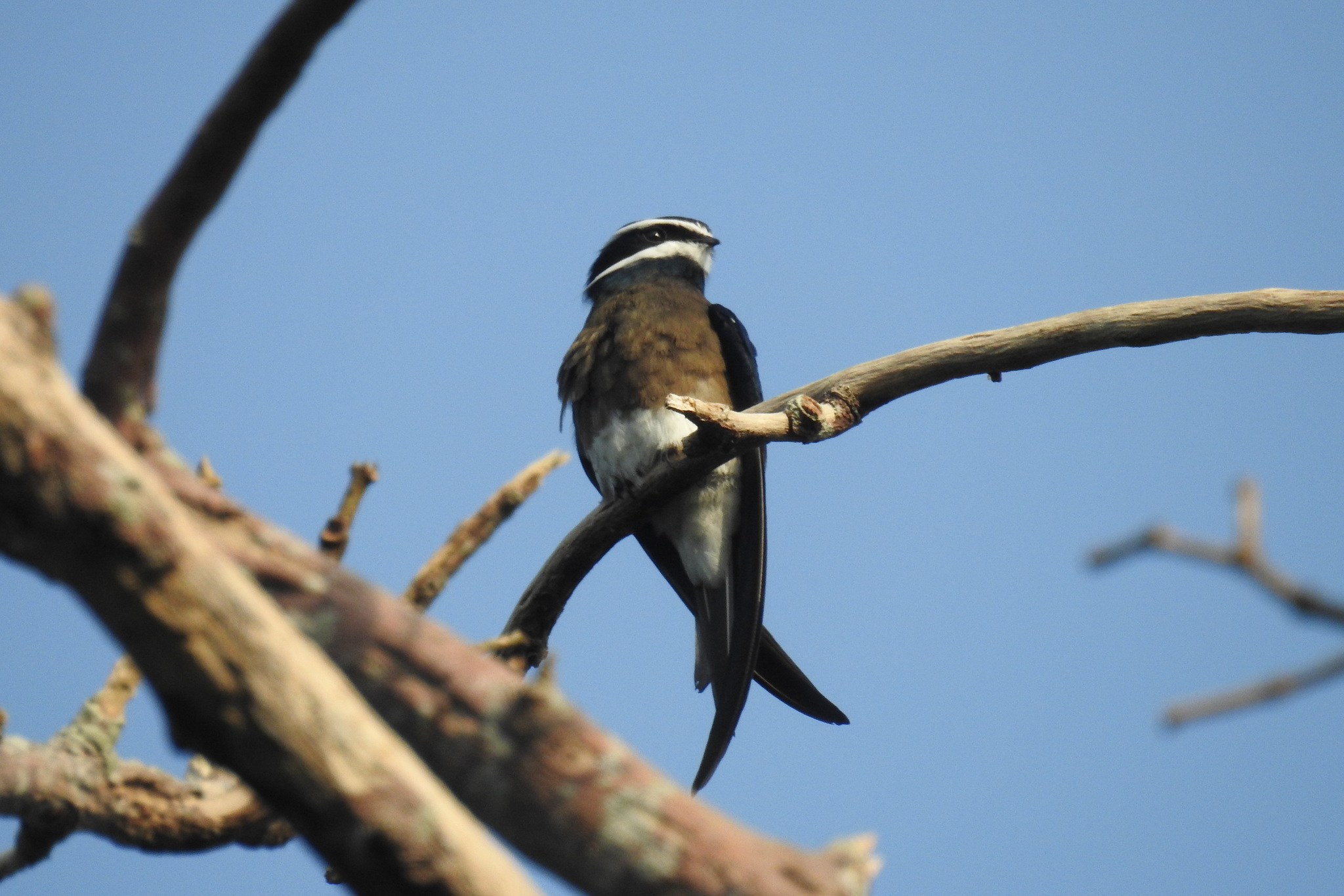 Whiskered Treeswift (Hemiprocne comata)